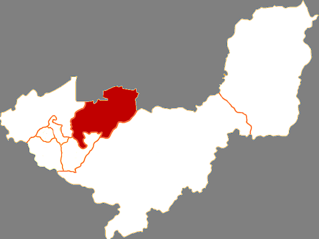 Location of Youyi County in Shuangyashan City, China